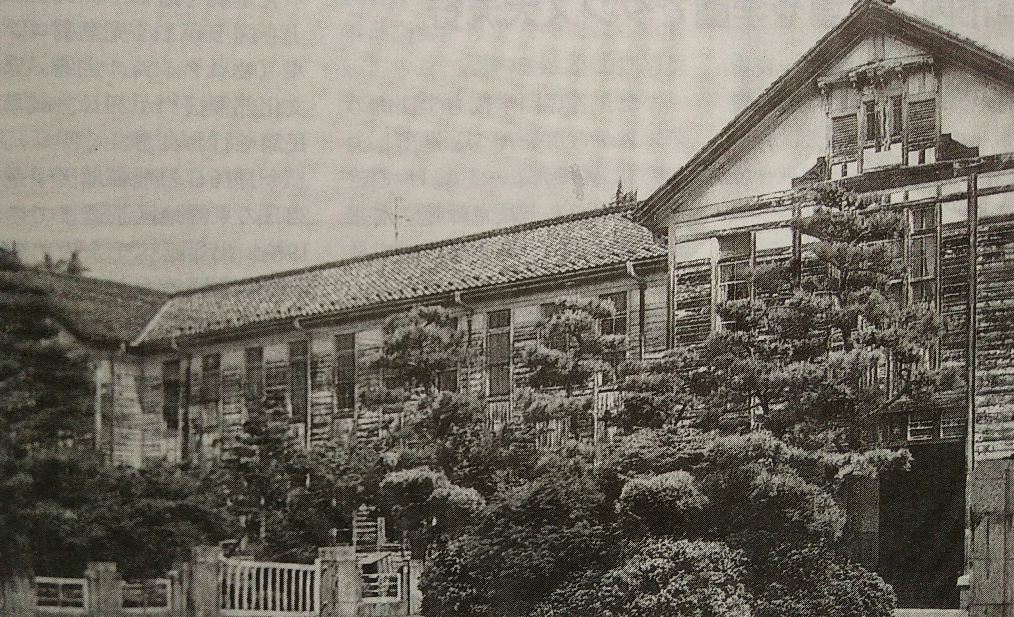 Gifu Agriculture and Forestry College of 1948